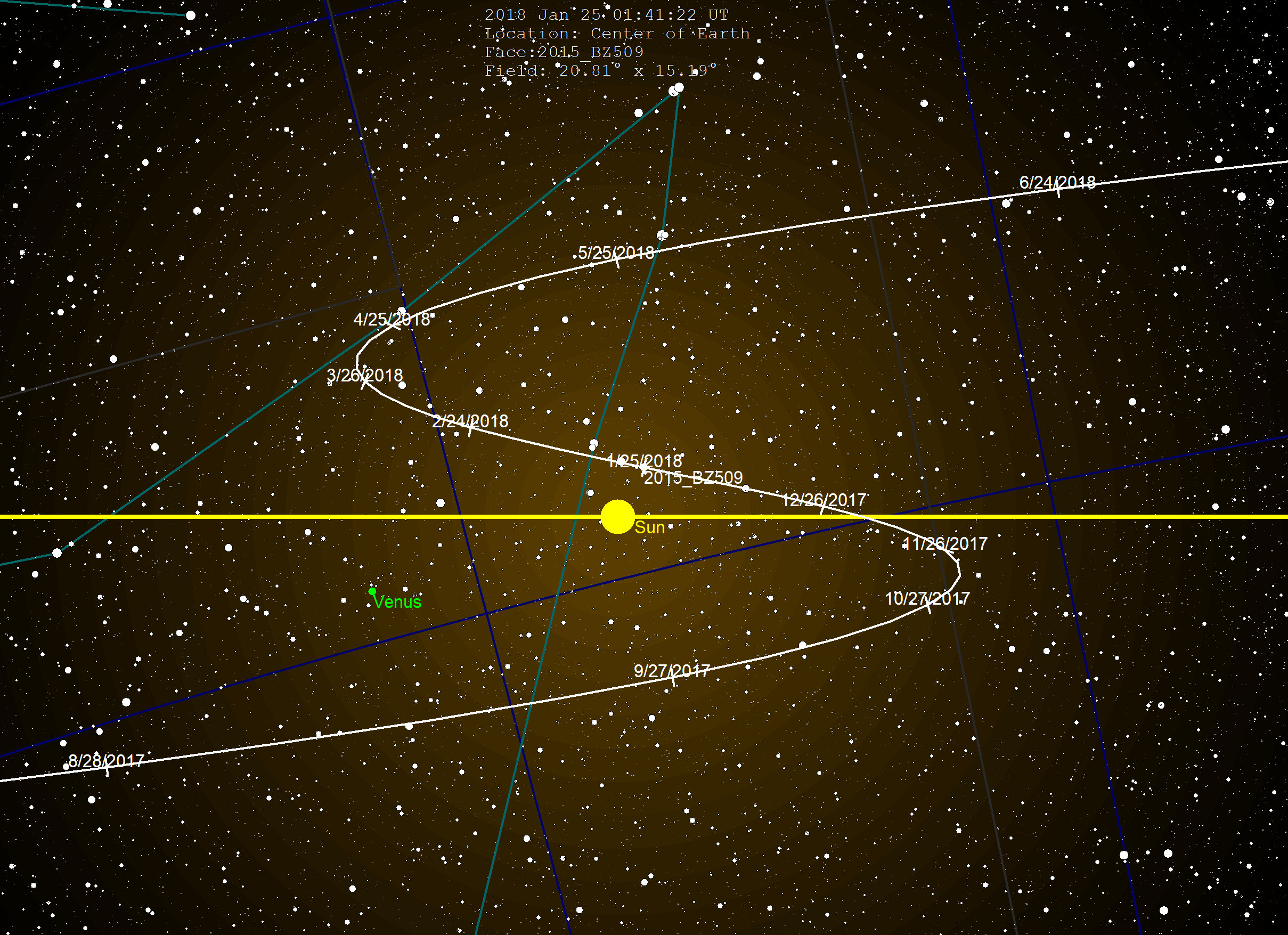 en:2015 BZ509 retrograde path in 2018, occurring during conjunction with the sun (far side).